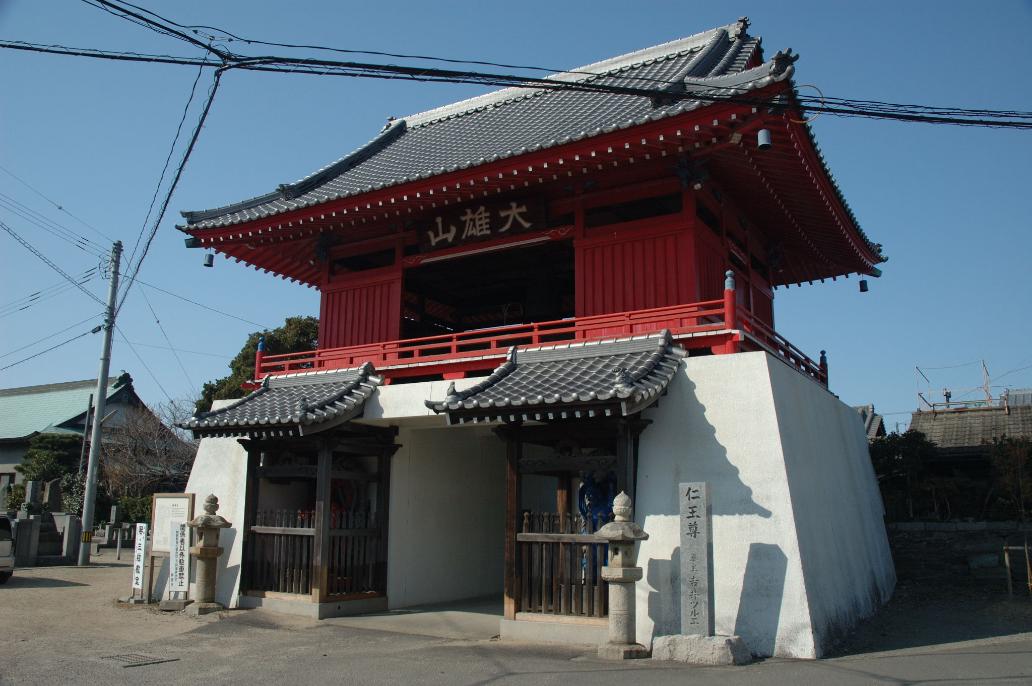 gate of Kogenji, Tokushima, Tokushima, Japan